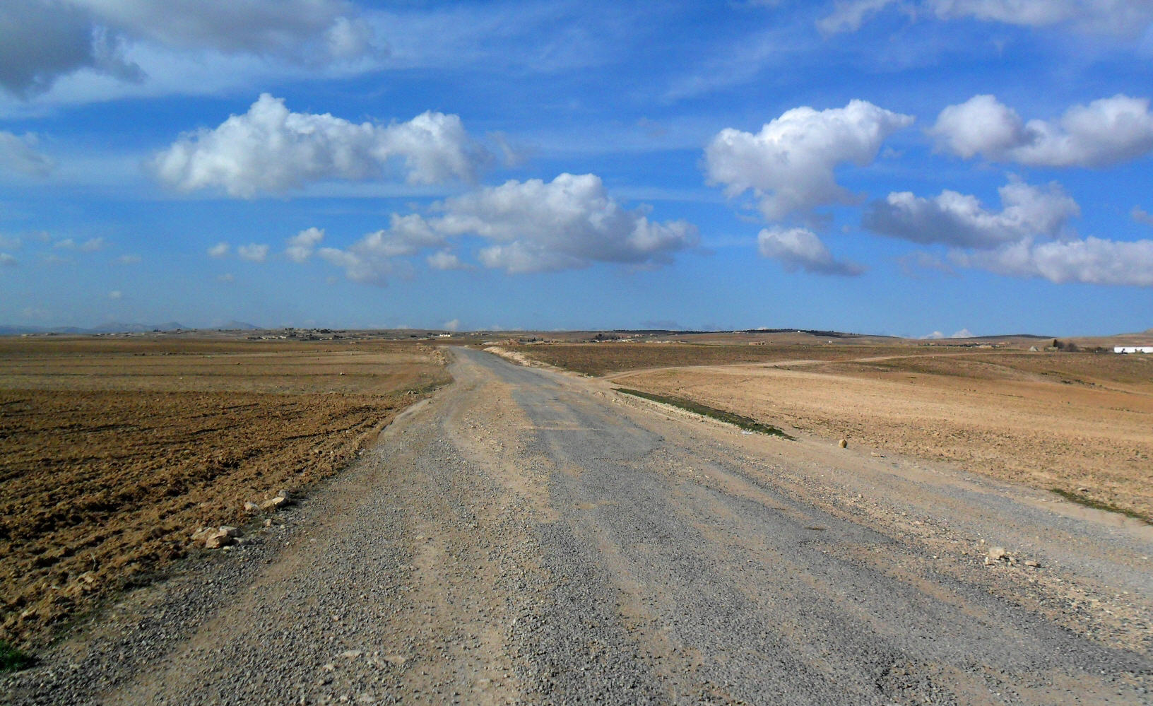 Ain Boucif